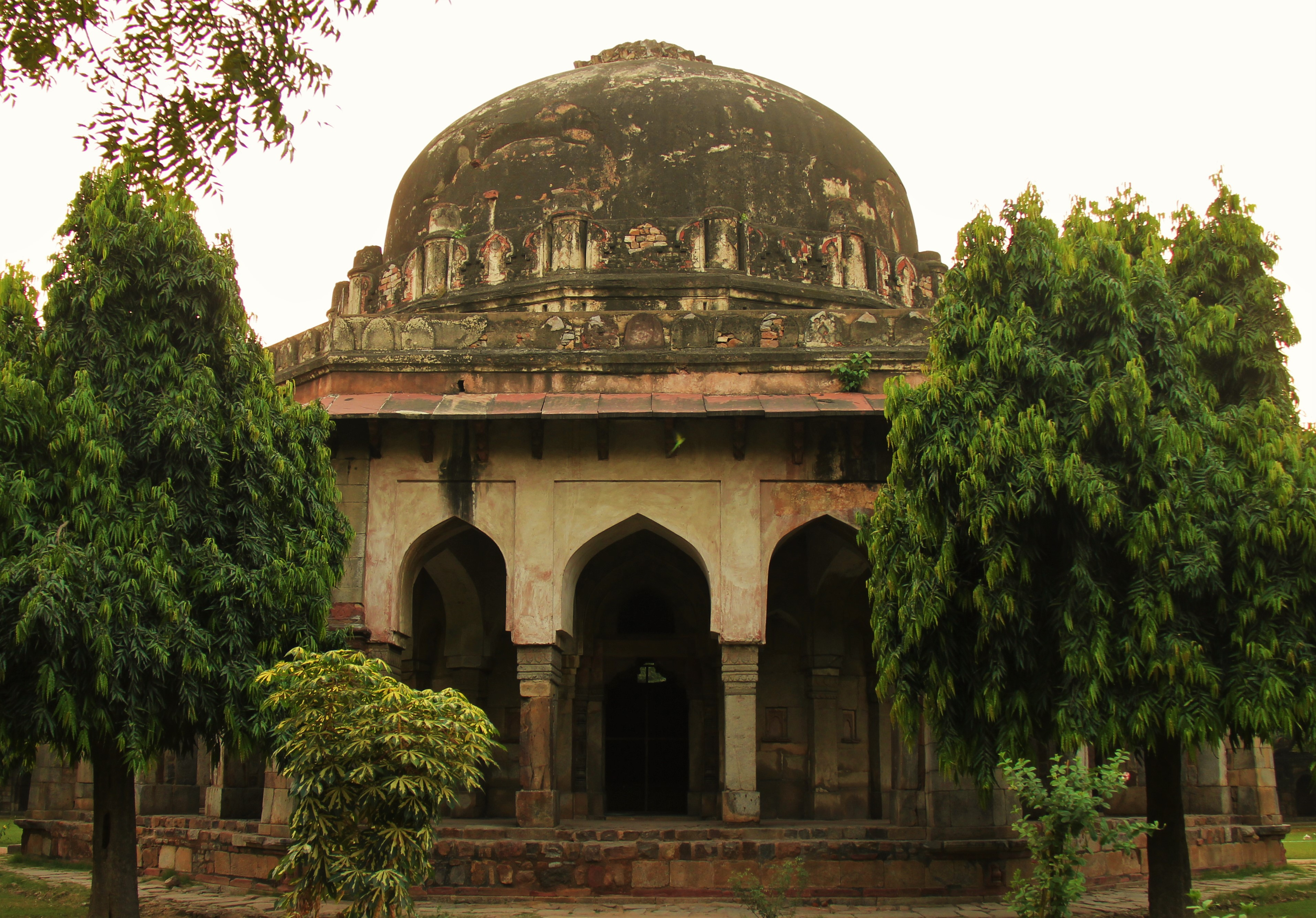 Sikandar Lodi's tomb in Lodhi Gardens, Delhi